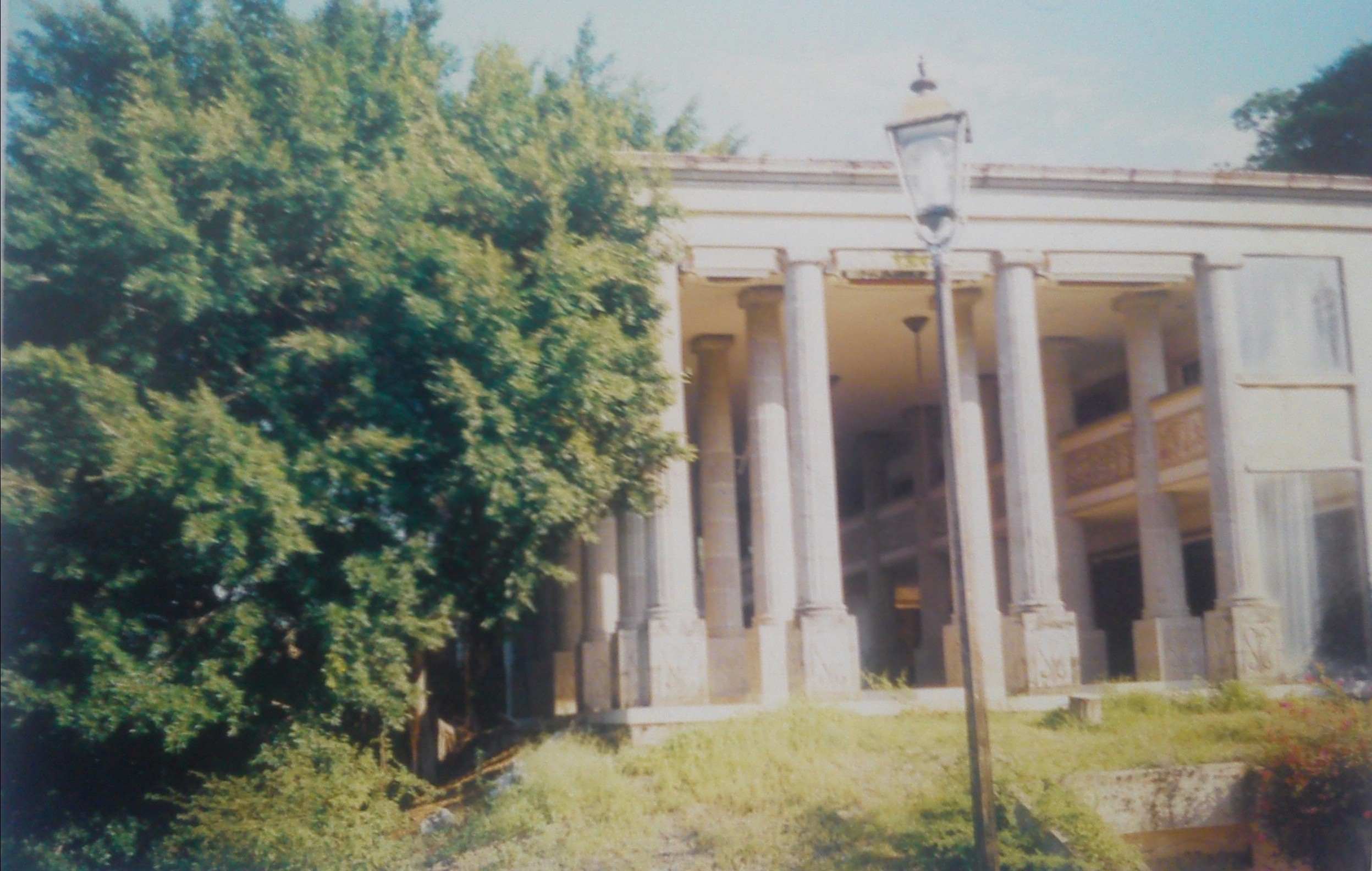 "The Parthenon" of Zihuatanejo, Guerrero, México, nowadays managed by the Fideicomiso Bahía de Zihuatanejo (Fibazi) - Bay of Zihuatanejo Trust